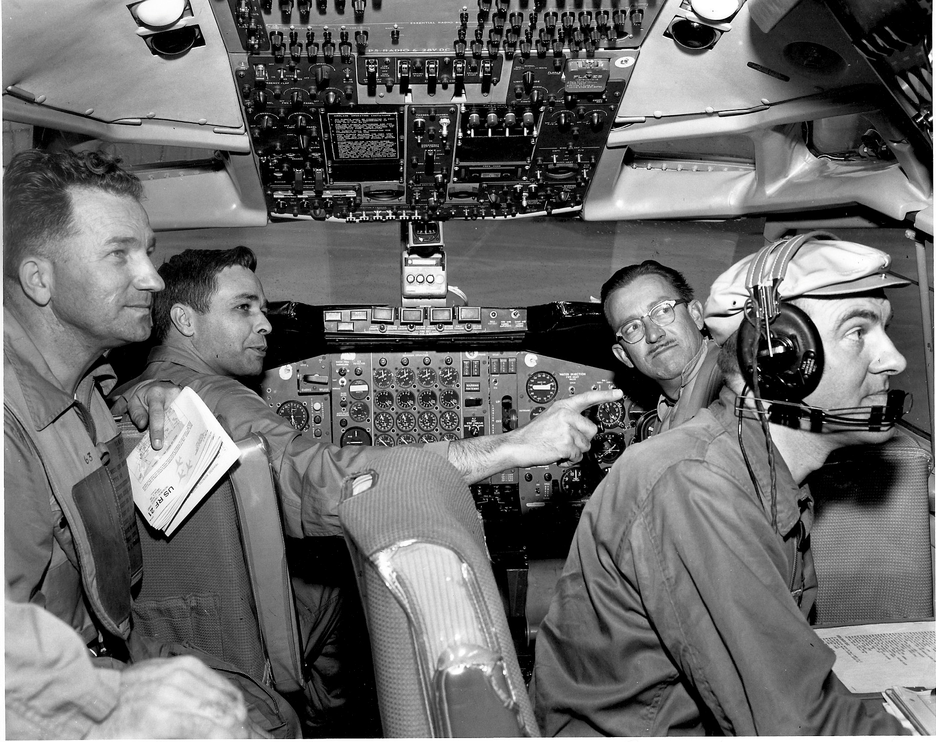 Test flight of Boeing 707. Form left to right Joseph John "Tym" Tymczyszyn (FAA#, Lew Wallich #Boeing#, unknown, unknown.